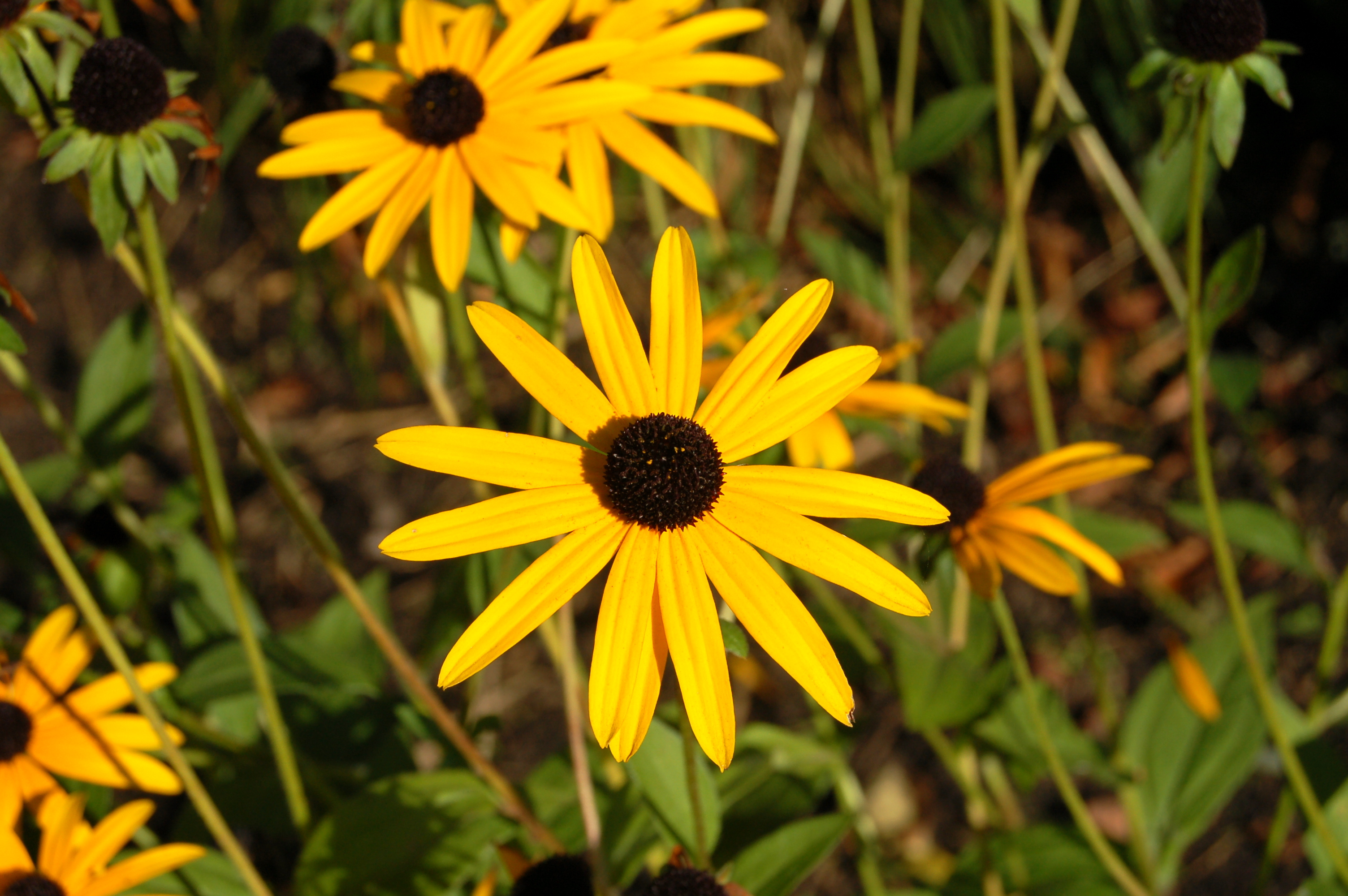 Rudbeckia fulgida Orange Coneflower